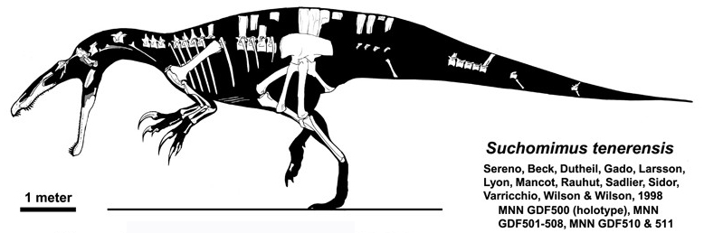 Skeletal reconstruction of Suchomimus tenerensis.